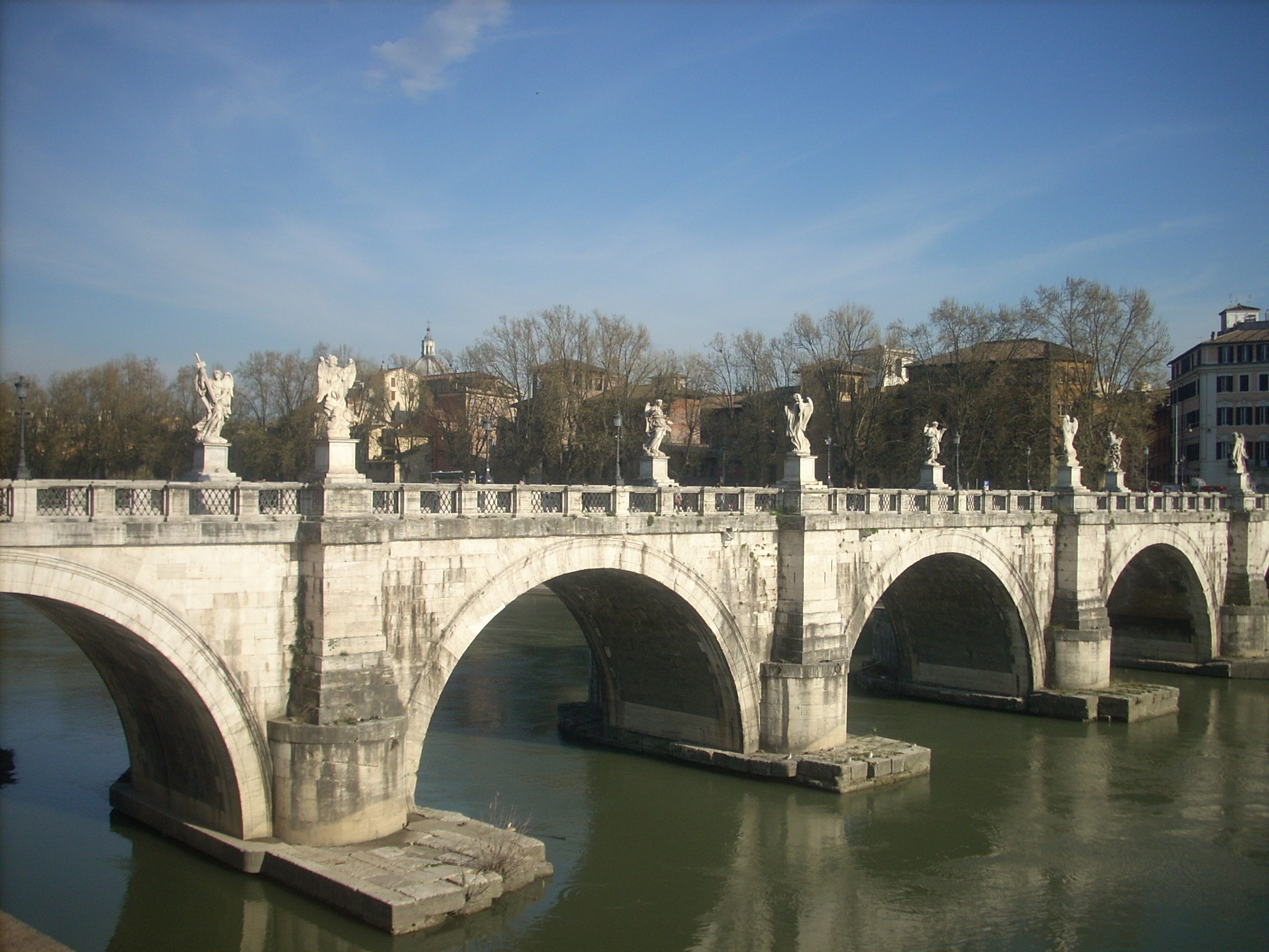 Bridge of Angels near Castel Sant' Angelo